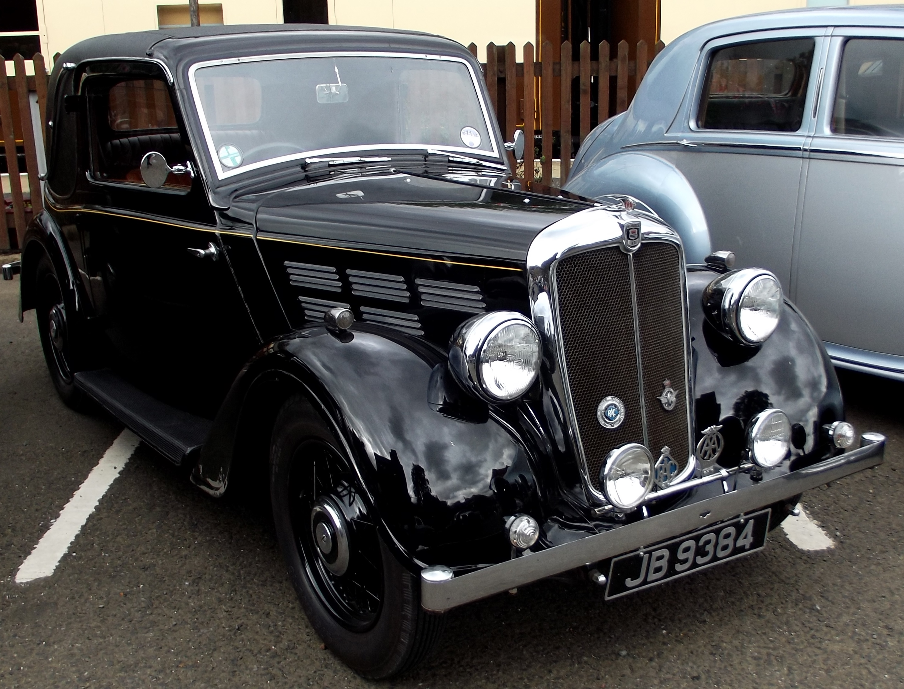 Morris 12 Special coupé 1936(DVLA) first registered 23 June 1936, 1479cc